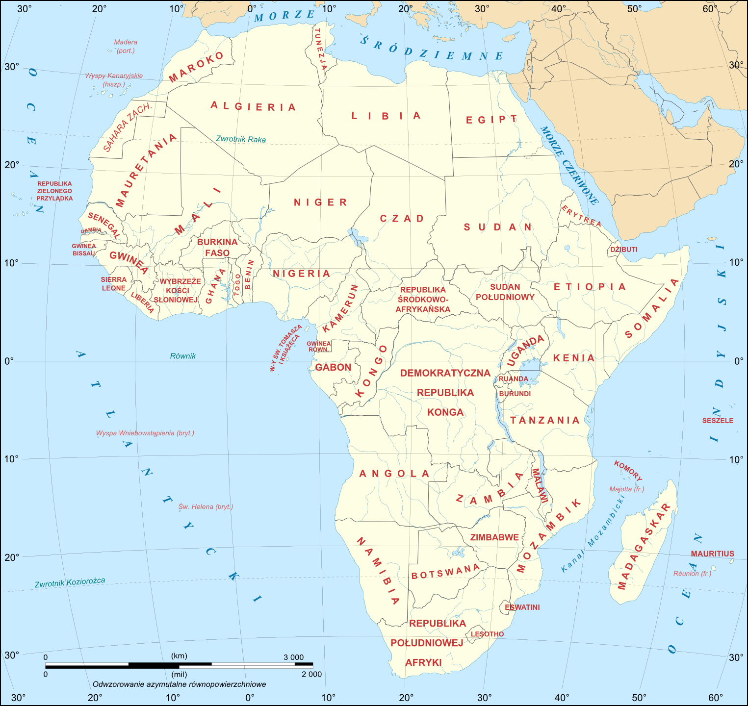 Political map of the African continent with Polish caption.